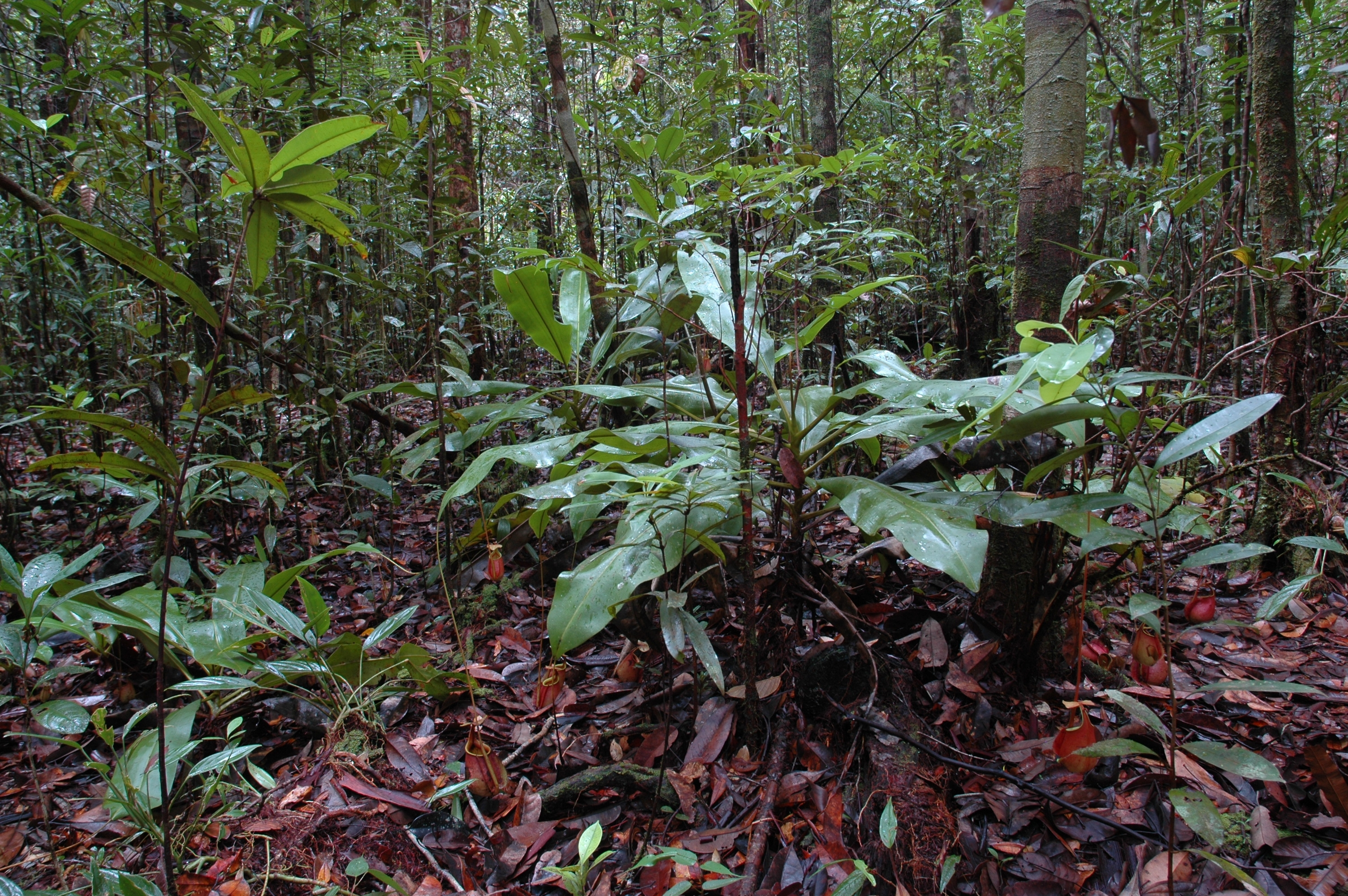 Nepenthes bicalcarata Headhunter's trail Mulu Sarawak by Jeremiah Harris